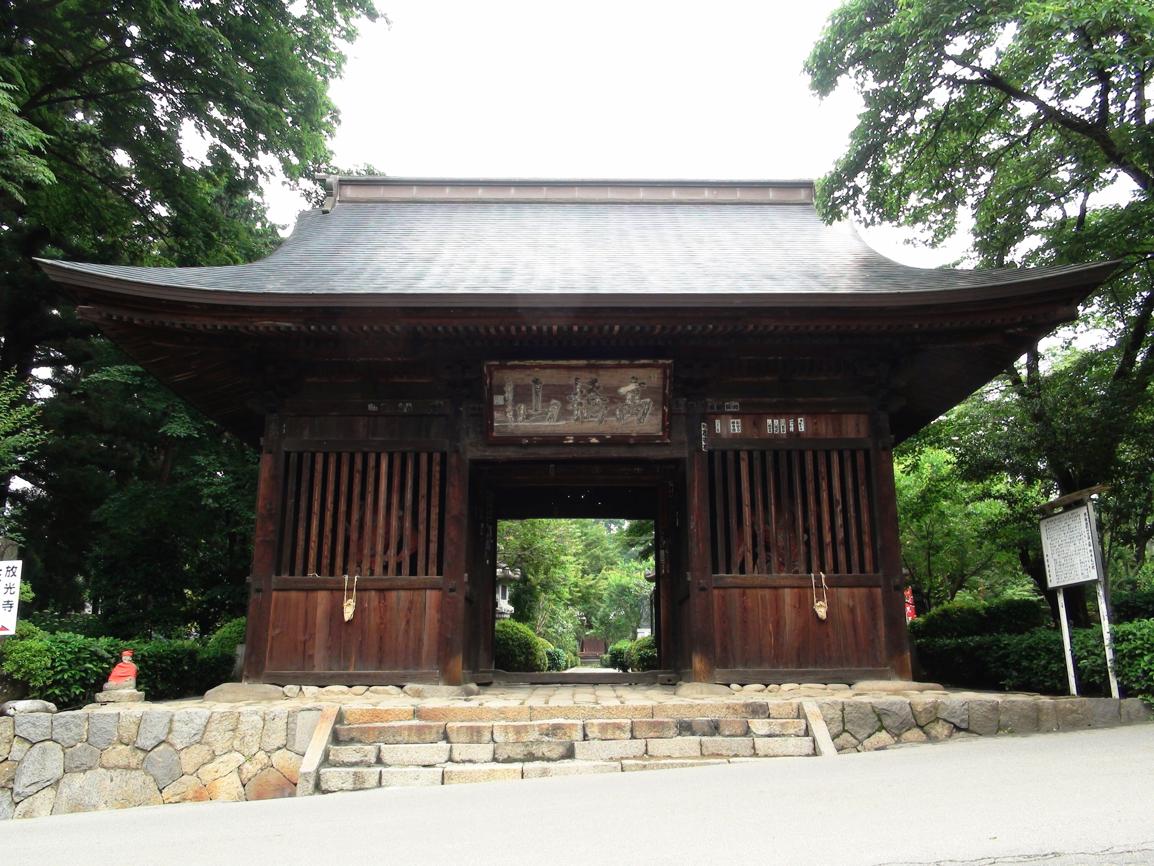 The main gate of a Buddhist temple of the Hokoji- temple